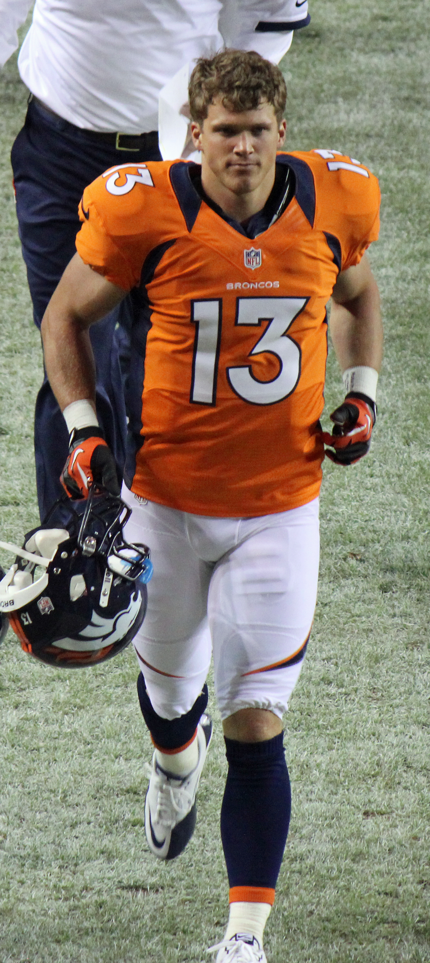 Tyler Grisham, a player on the National Football League.